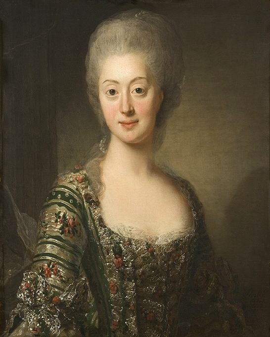 Portrait of Sophia Magdalena of Denmark (1746—1813). Princess of Denmark 1746—1766, Crown Princess of Sweden 1766—1771, Queen of Sweden 1771—1792